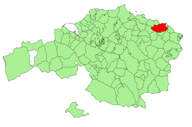 Ispaster municipality in the province of Biscay